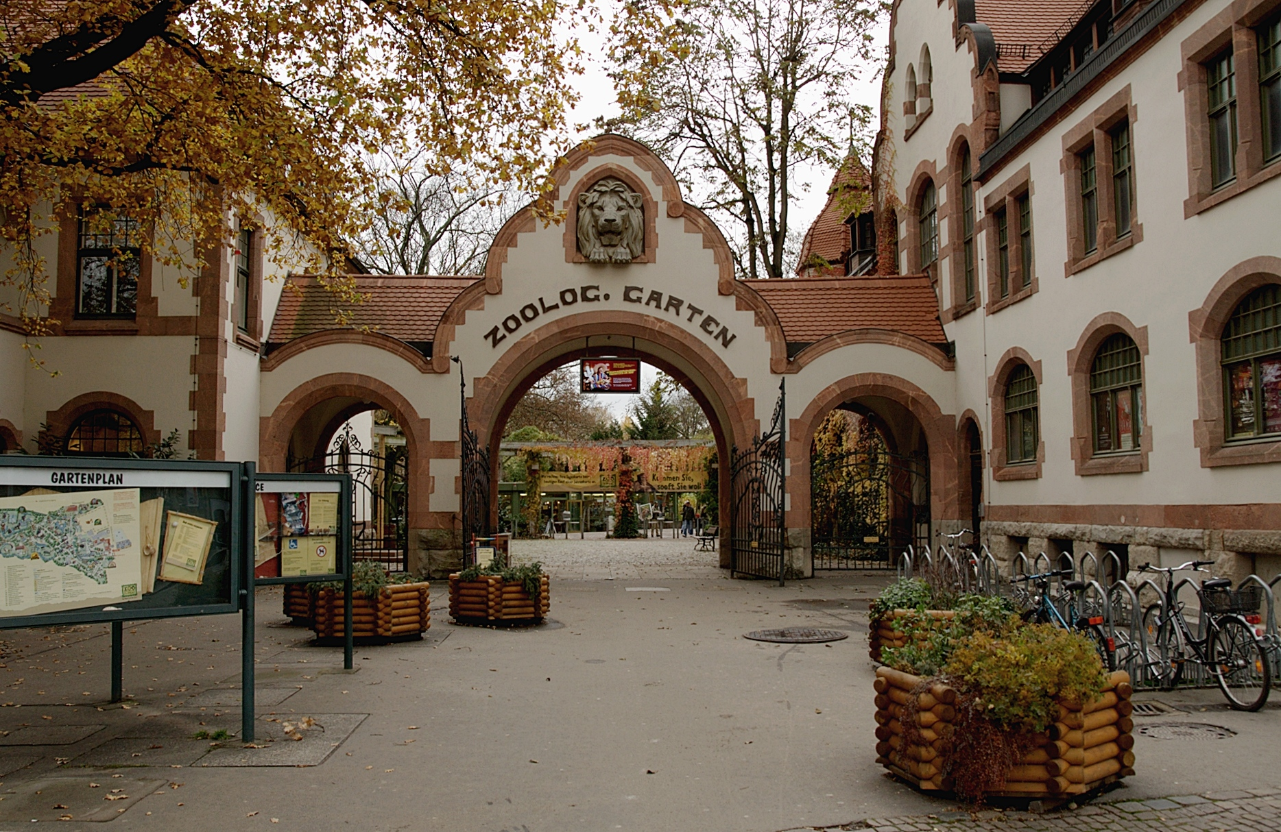 Entry Leipzig Zoo